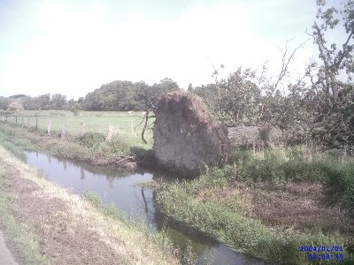 Fallen tree beside the shore of the Flöthbach creek, Germany.